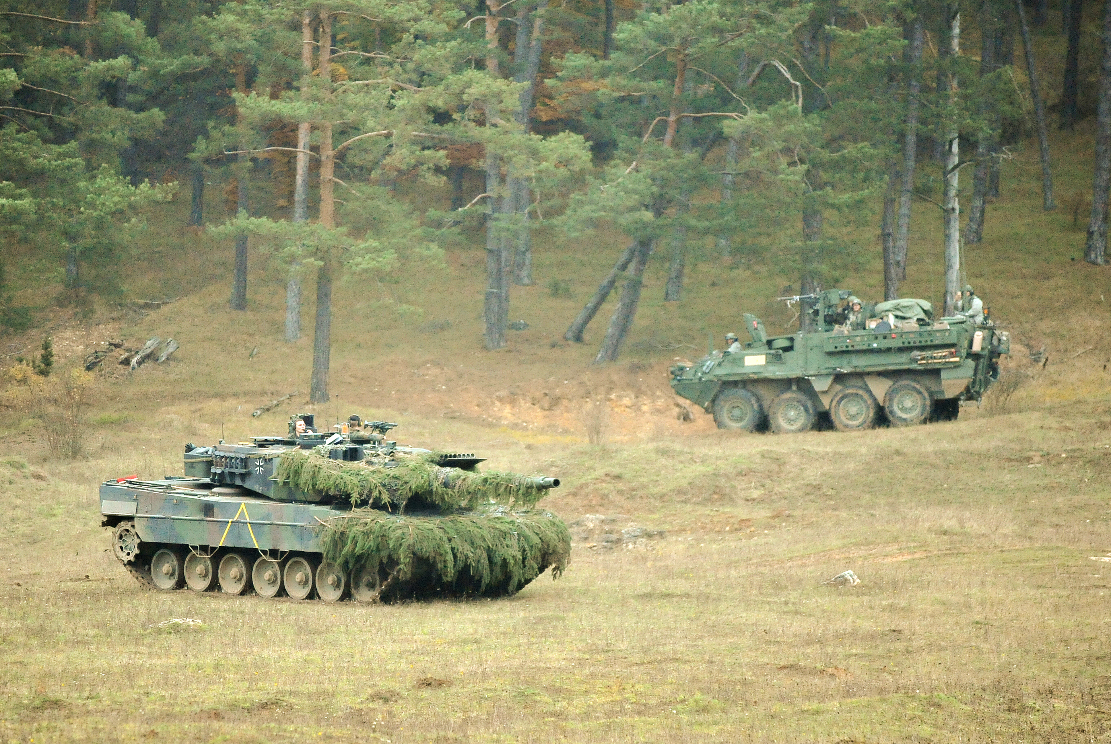 A German Army Leopard 2 tank, assigned to 104th Panzer Battalion, moves through the Joint Multinational Readiness Center during Saber Junction 2012 in Hohenfels, Germany, Oct. 25. The U.S. Army Europe's exercise Saber Junction trains U.S. personnel and 1800 multinational partners from 18 nations ensuring multinational interoperability and an agile, ready coalition force.